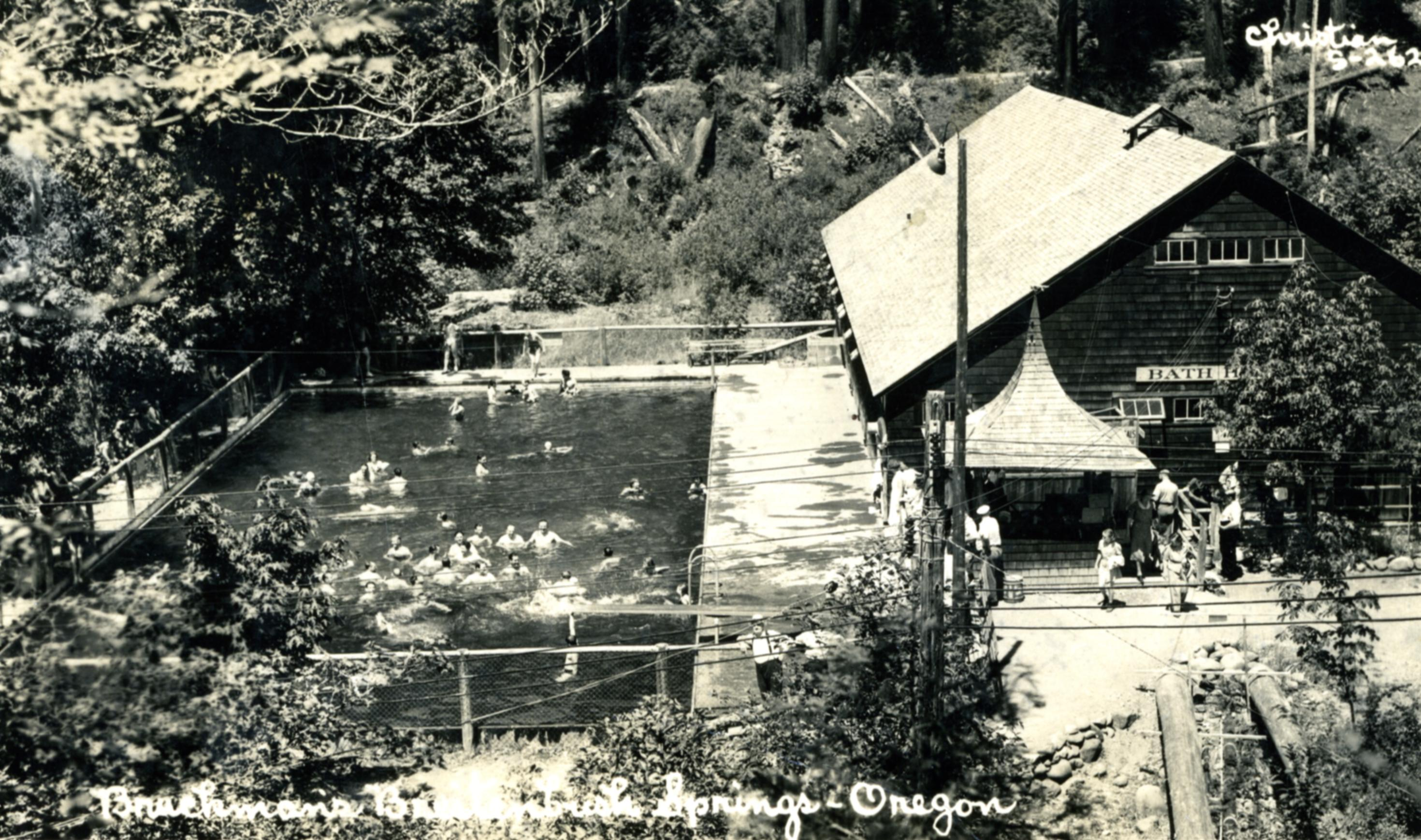 Original Collection: Gerald W. Williams Collection, 1855-2007 Item Number: WilliamsG: SVbreitenbushpoolbuilding2 You can find this image by searching for the item number by clicking here. Want more? You can find more digital resources online. We're happy for you to share this digital image within the spirit of The Commons; however, certain restrictions on high quality reproductions of the original physical version may apply. To read more about what “no known restrictions” means, please visit the Special Collections & Archives website, or contact staff at the OSU Special Collections & Archives Research Center for details.